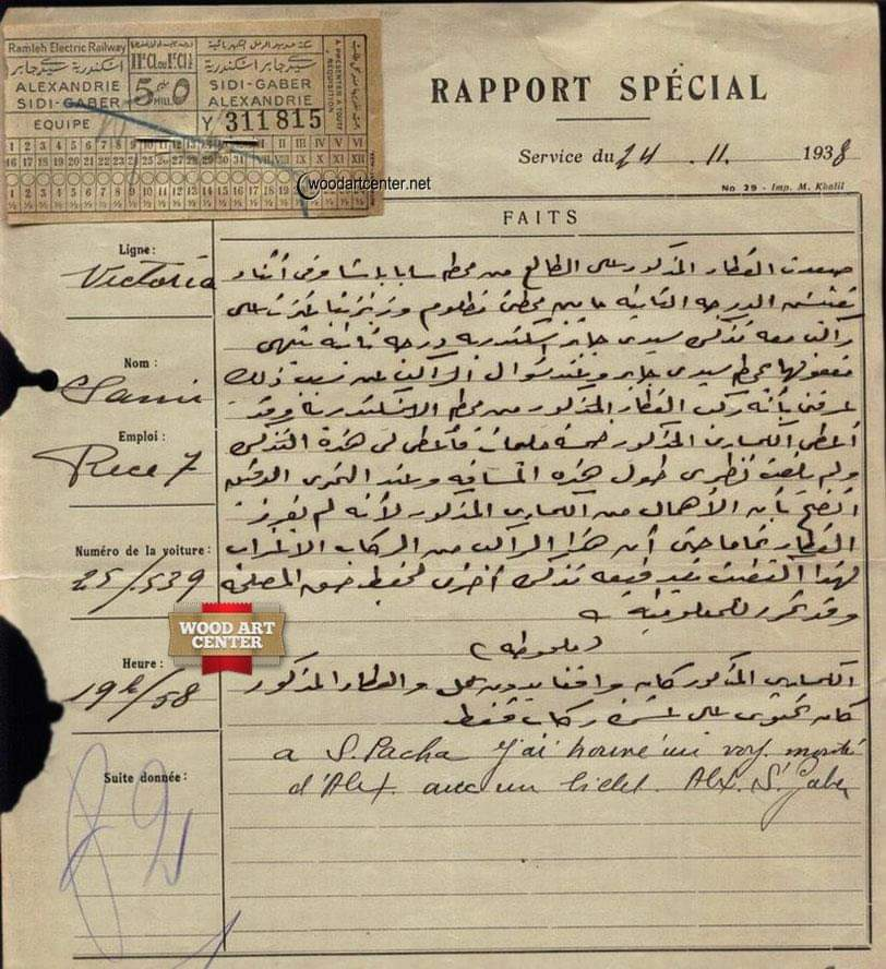 Alexandria railway rapport 1938